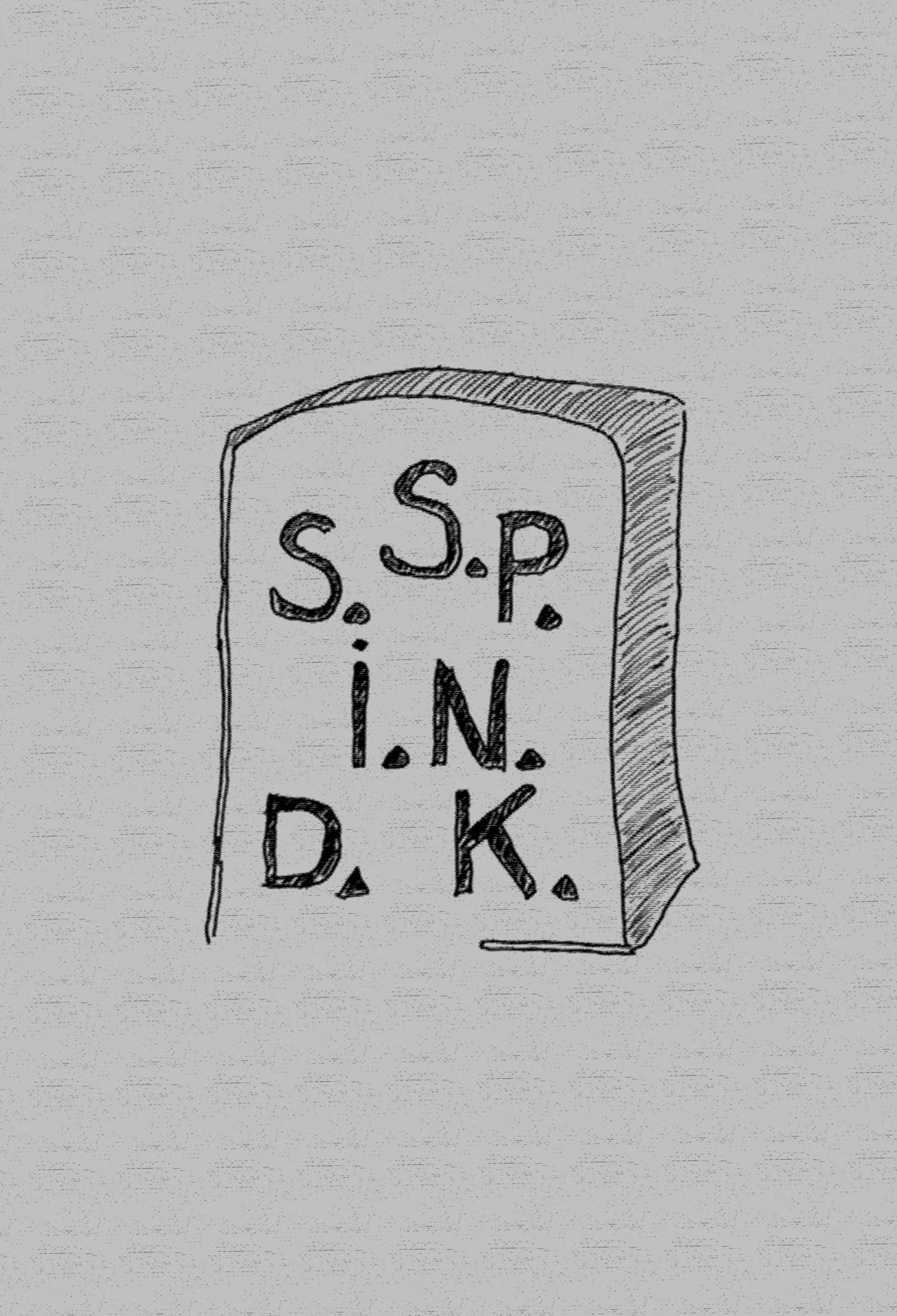 Drawing of a Boundary stone of the former “Monastery St, Petrus in Dietkirchen”, located in Roisdorf (Bornheim), Nordrhein-Westfalen, Germany